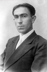 Azerbaijani actor, director of Azerbaijani theatre of Yerevan, Bakhshi Qalandarli.